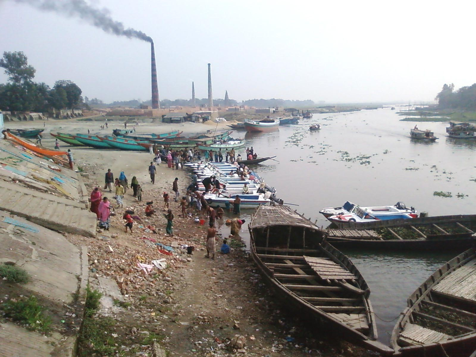 Titas River from Launch Ghat, Shahbazpur Town, Titas Nadi Brahmanbaria